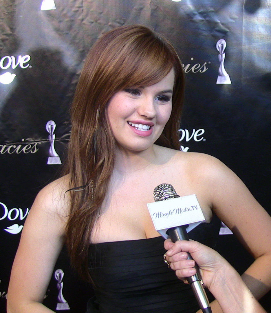 Debby Ryan at the 36th Annual Gracie Awards Gala